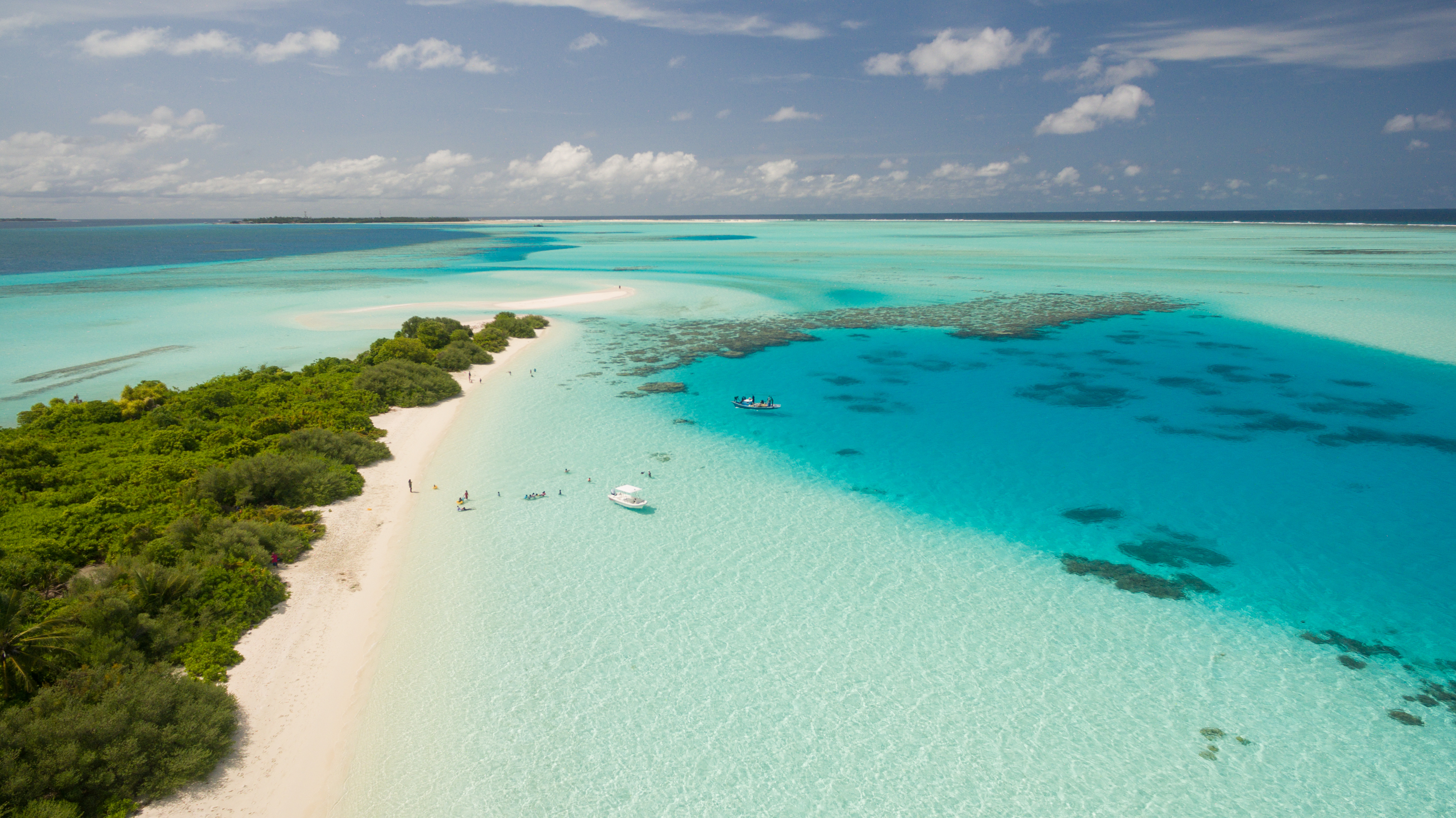 Kudahuvadhoo, Maldives